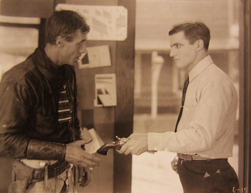 Sid Jordan (left) and Tom Mix in The Coming of the Law (1919) - publicity still (original image damaged, modified and cropped)